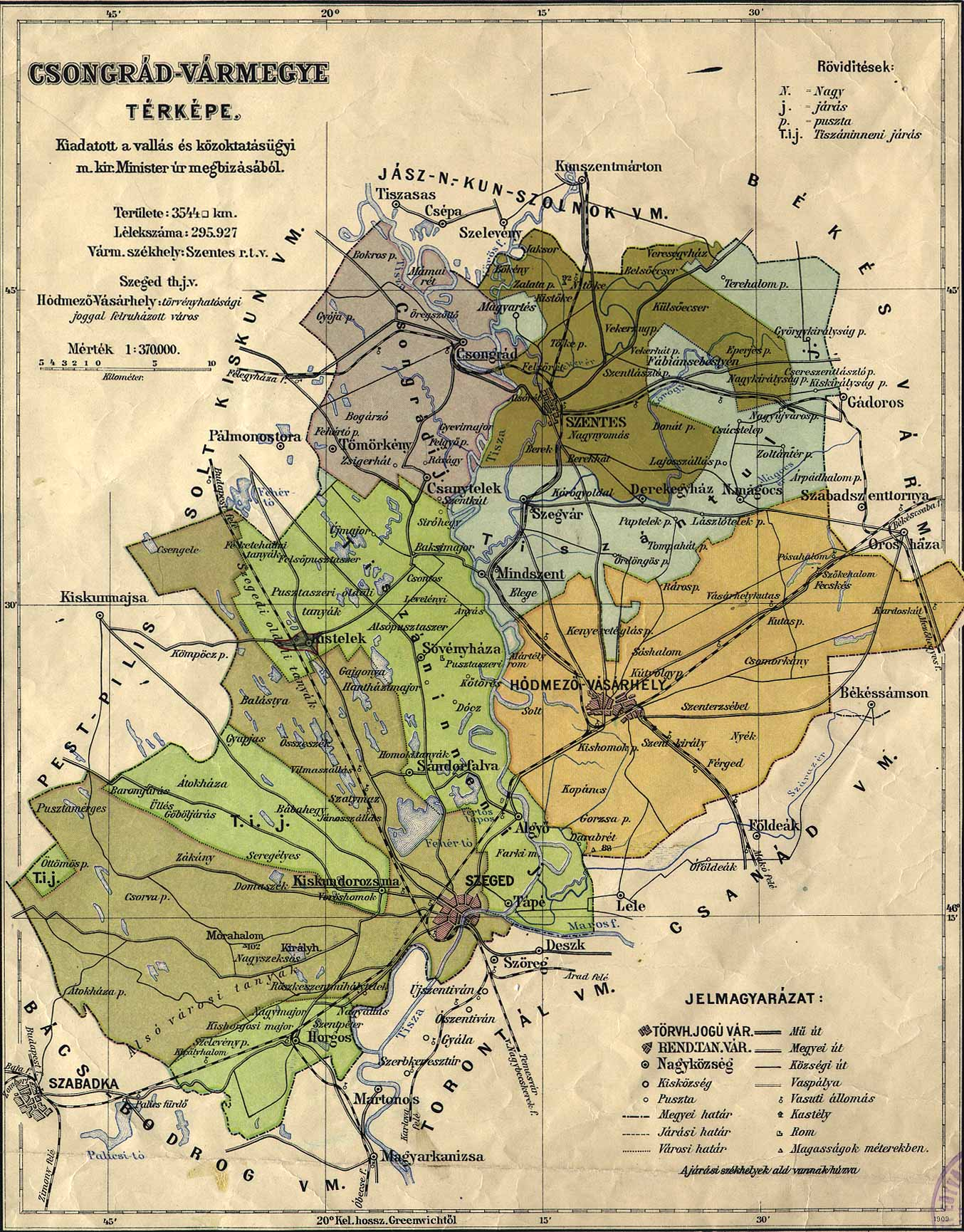 Administrative map of the county of Csongrád in the Kingdom of Hungary